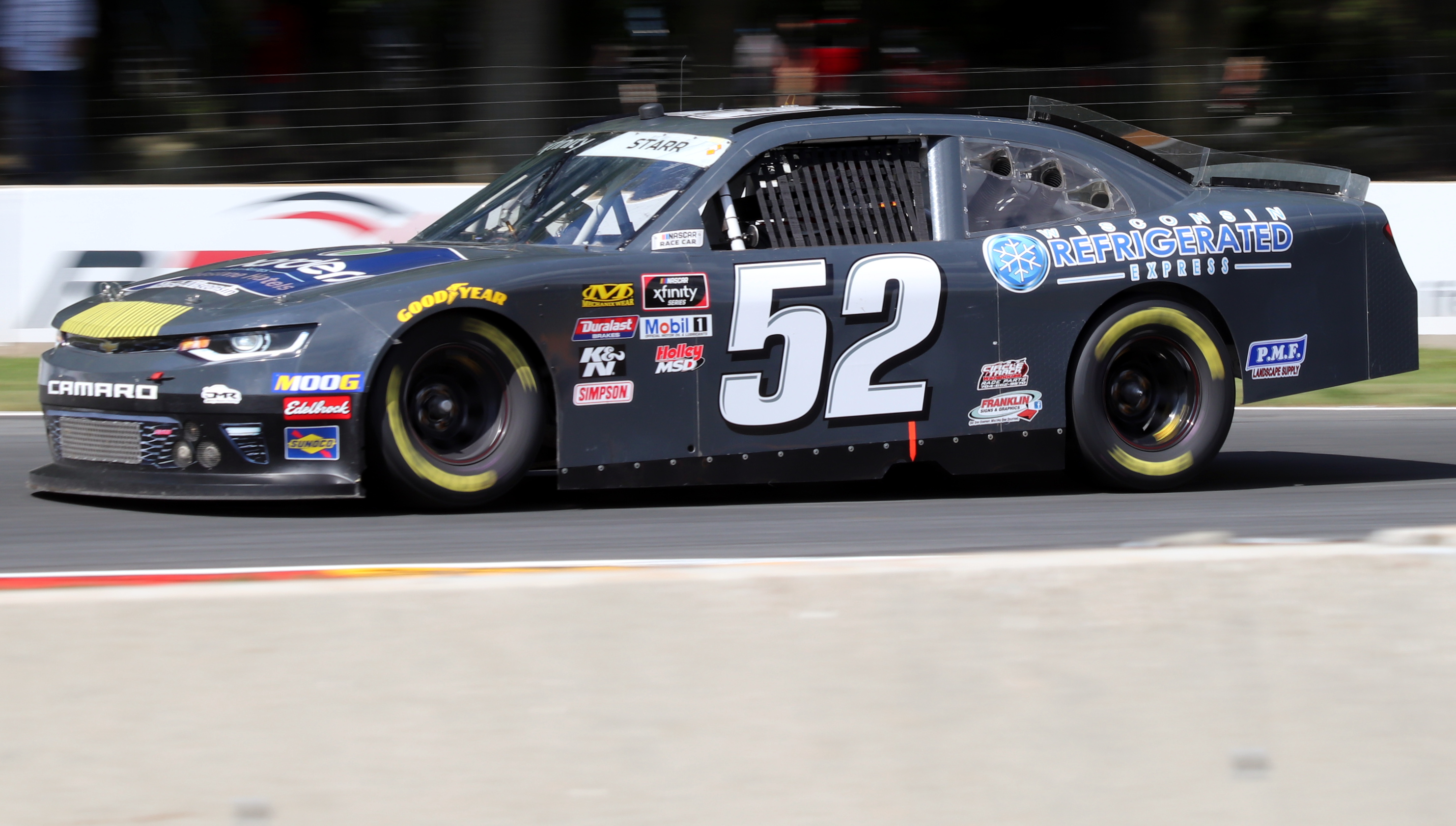 The #52 Chevrolet Camaro of David Starr at the NASCAR CTECH 180.